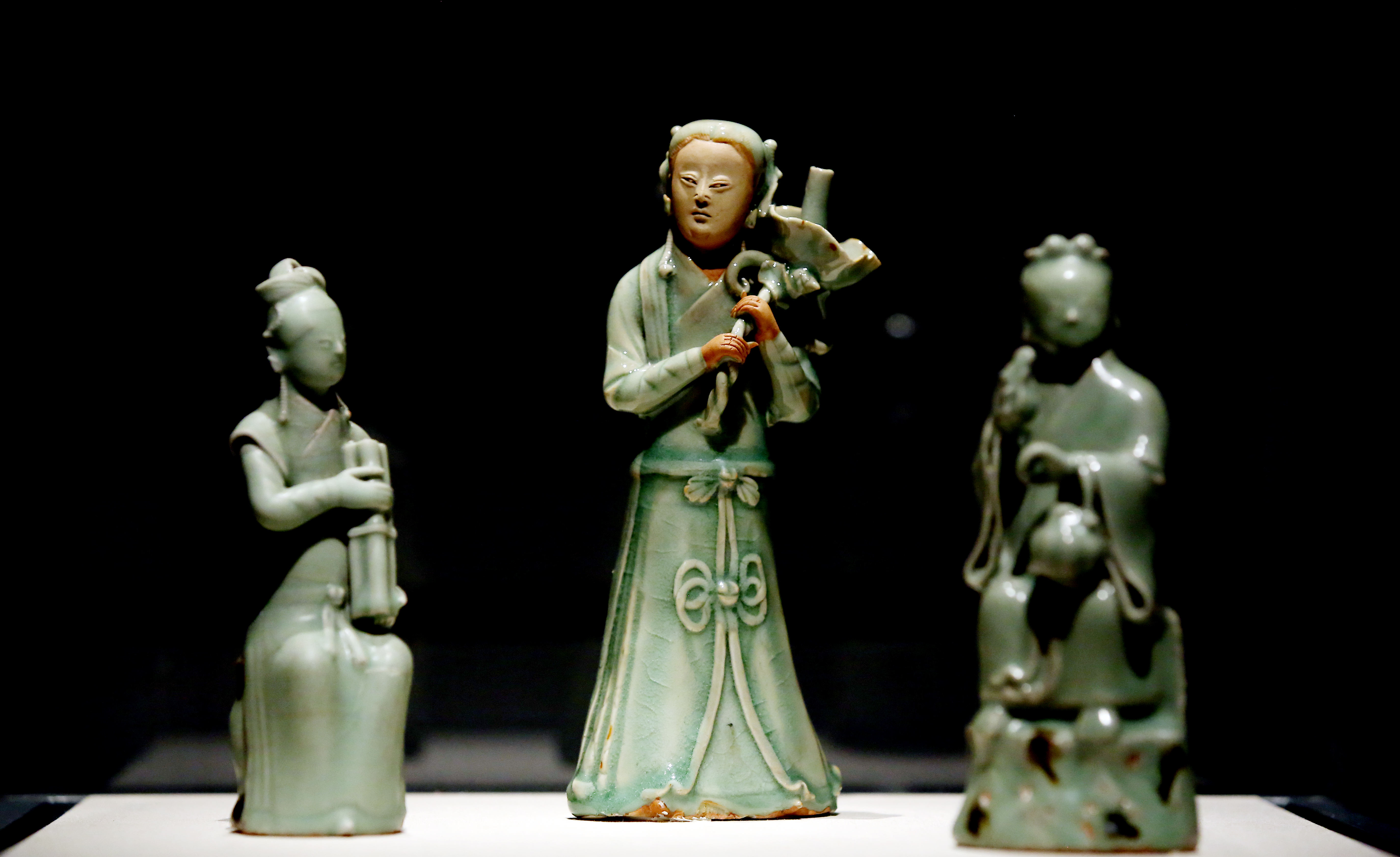 Discoveries from the Sinan Shipwreck July 25, 2016